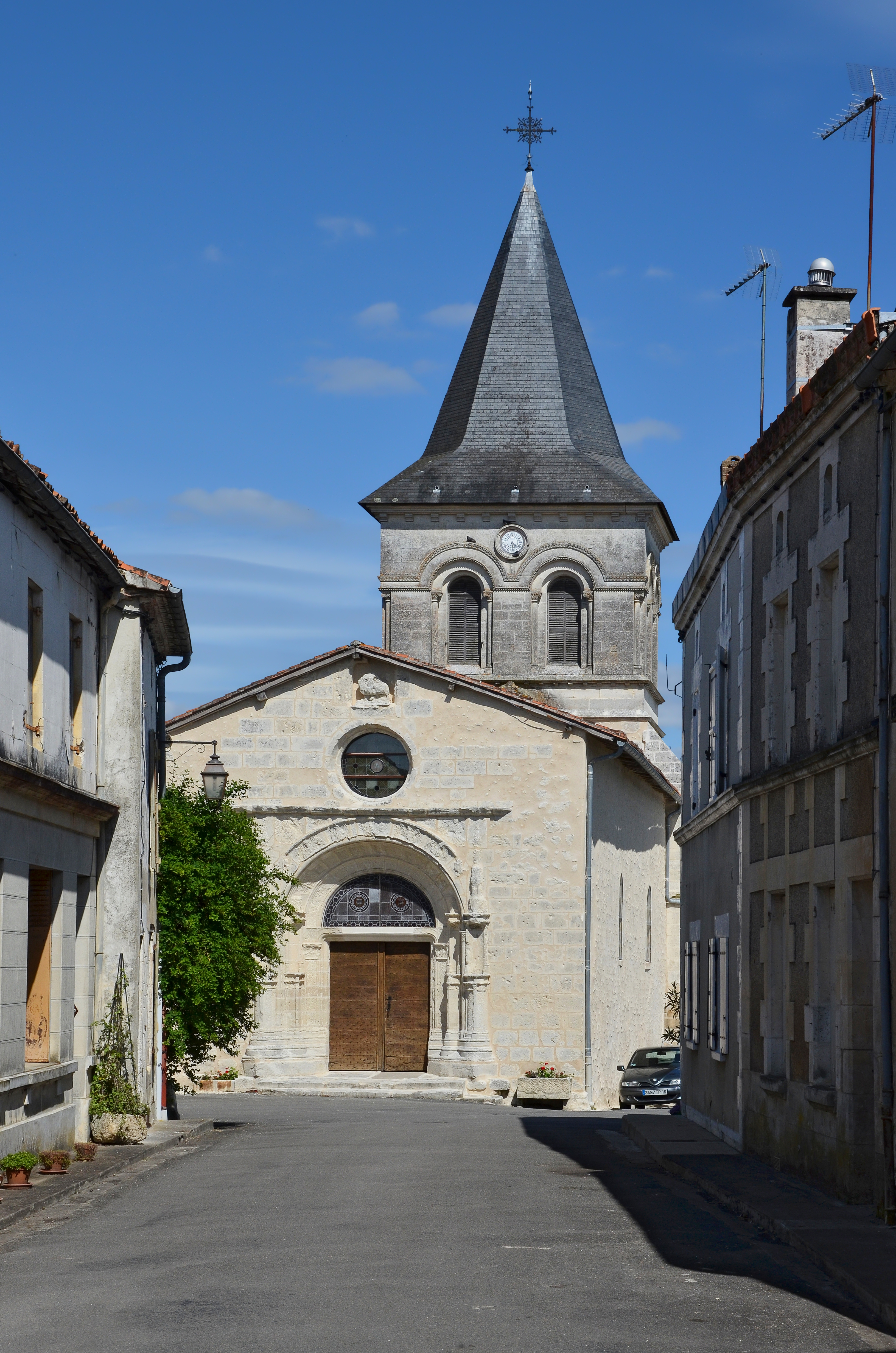 Village main street leading to the church, Salles-Lavalette, Charente, France.